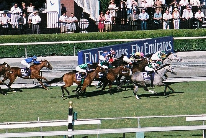 Forever Together, on the outside, on her way to winning the 2008 Filly and Mare Turf at Santa Anita